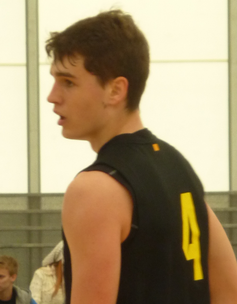 Croatian basketball player Mario Hezonja playing for FC Barcelona at the Nike International Junior Tournament Finals in London (9-12 May 2013).